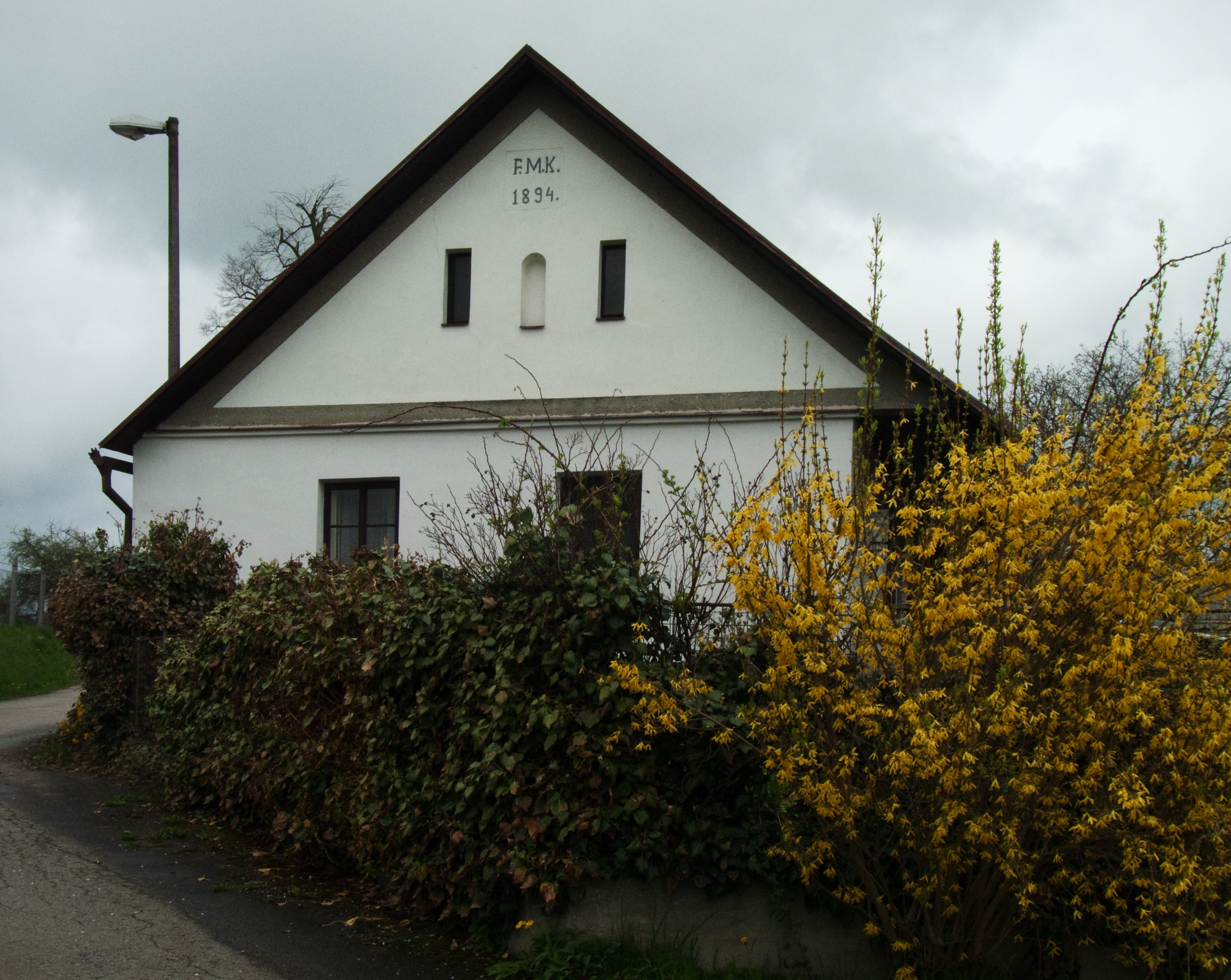 House No 7 in the village of Prudice, Tábor district, Czech Republic referring to 1894. The writing F.M.K. refers to the former house owners, František and Marie Kostroun